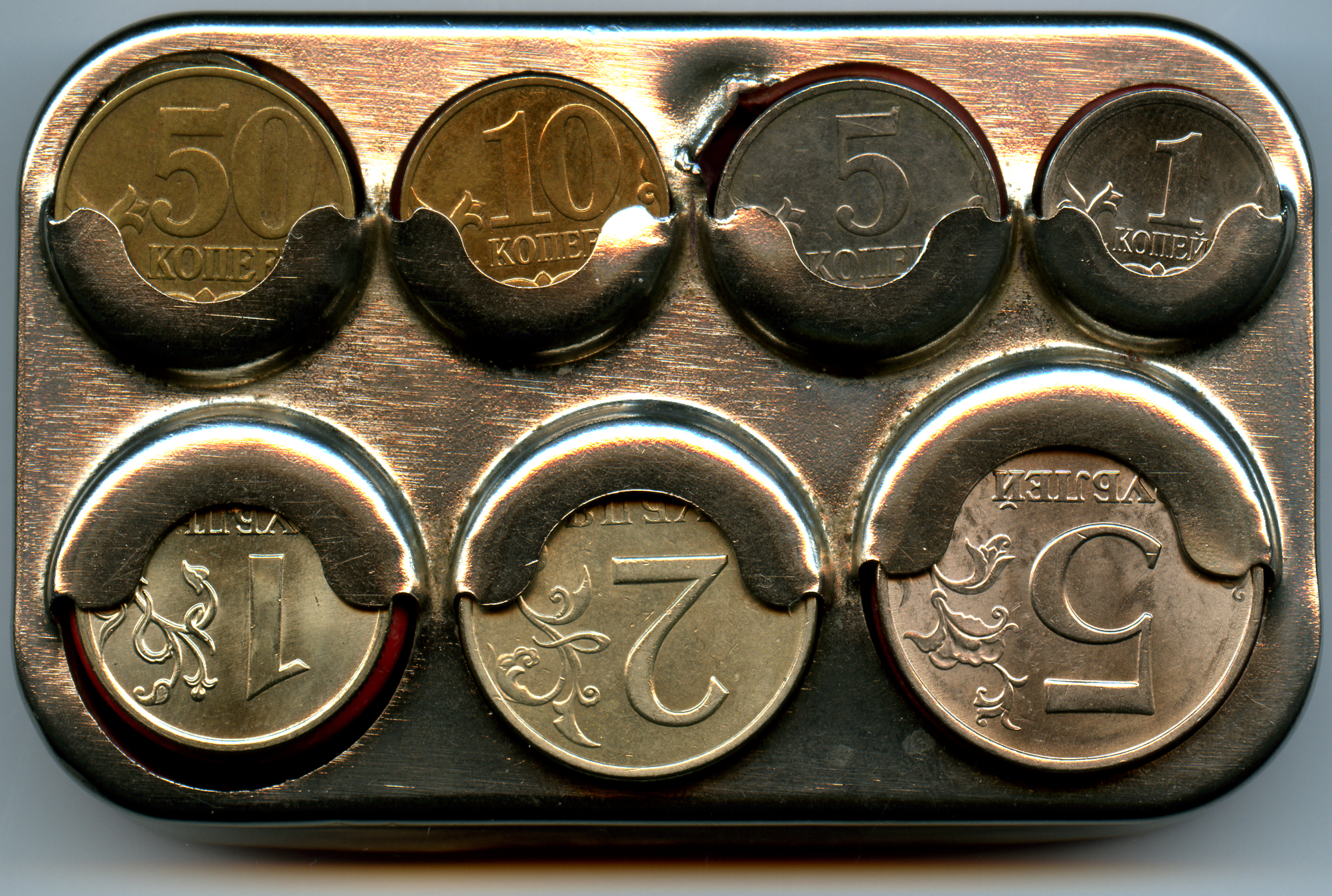 My old soviet monetnitza (in Russian), which was modified for 7 basic Russian coins (1 kopeck, 5 kopecks, 10 kopecks, 50 kopecks, 1 ruble, 2 rubles and 5 rubles).